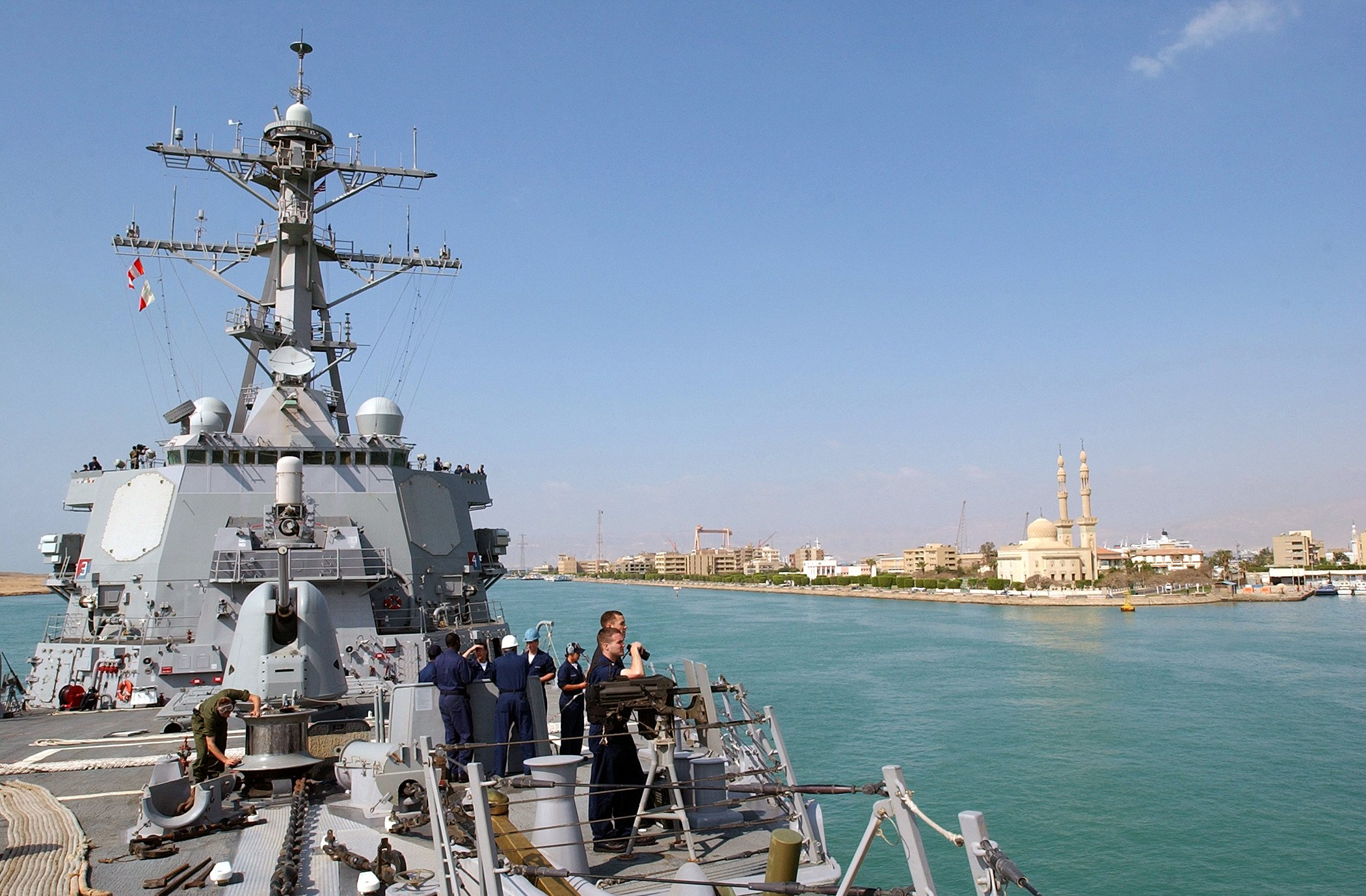 030426-N-6141B-013 The Suez Canal -- The guided missile destroyer USS Donald Cook (DDG 75) transits the Suez Canal. The Donald Cook is one of many warships supporting Operation Iraqi Freedom, the multi-national coalition effort to liberate the Iraqi people, eliminate Iraq's weapons of mass destruction and end the regime of Saddam Hussein